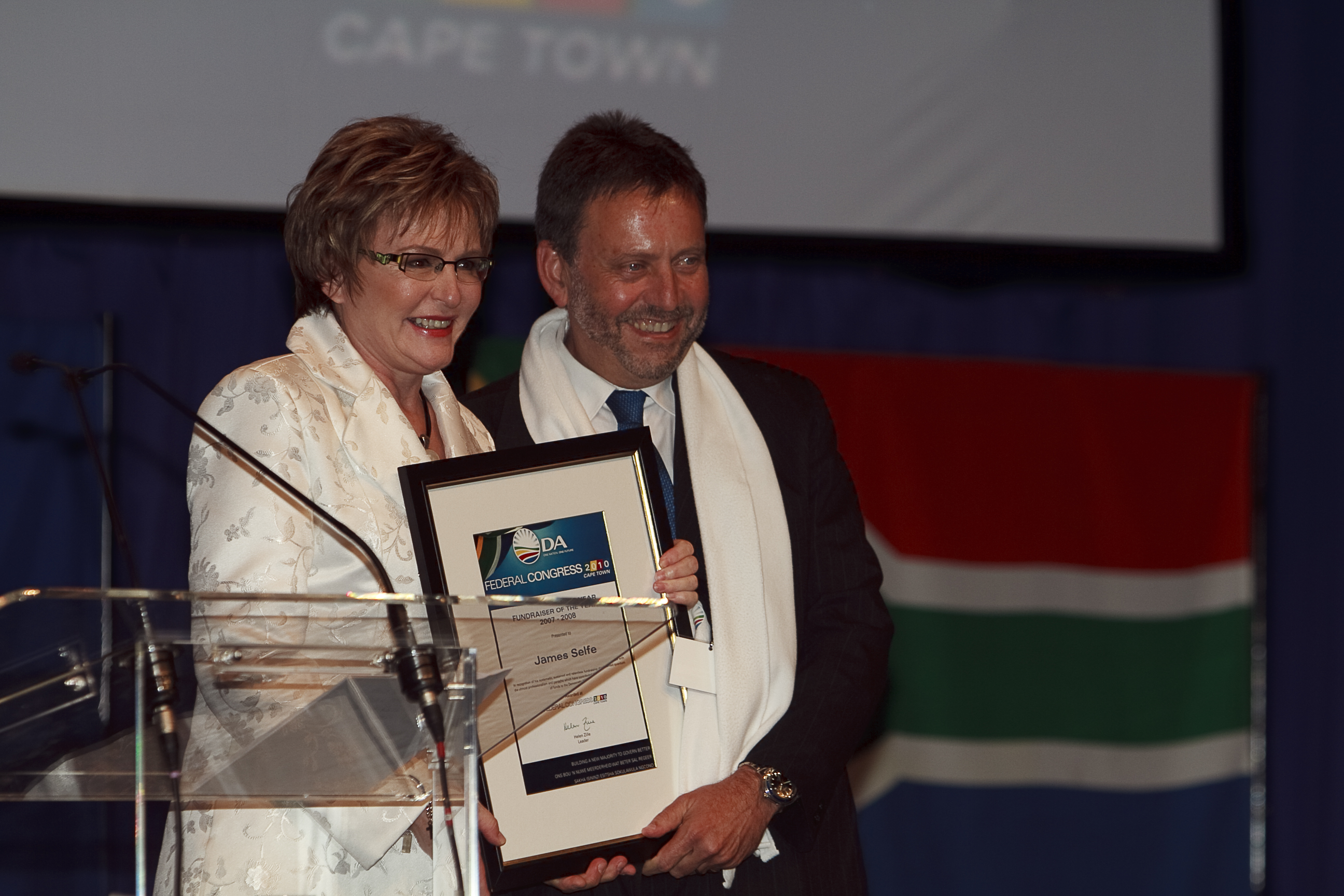 Federal Congress 2010: Helen Zille and James Selfe: DA Leader Helen Zille presents a fundraising award to James Selfe MP